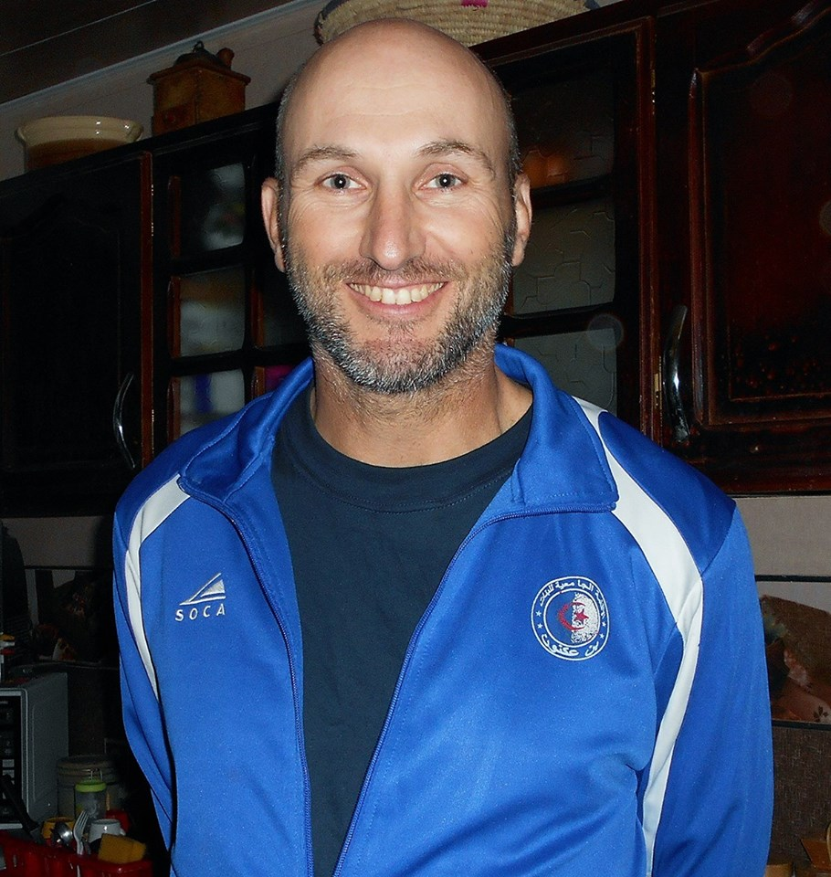 Sascha Grabow visiting Algeria2015